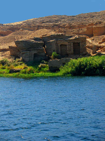 Rock temples of Ramses II and Merenptah cuted directly in the rocks at the Silsileh quarring site, near Aswan.